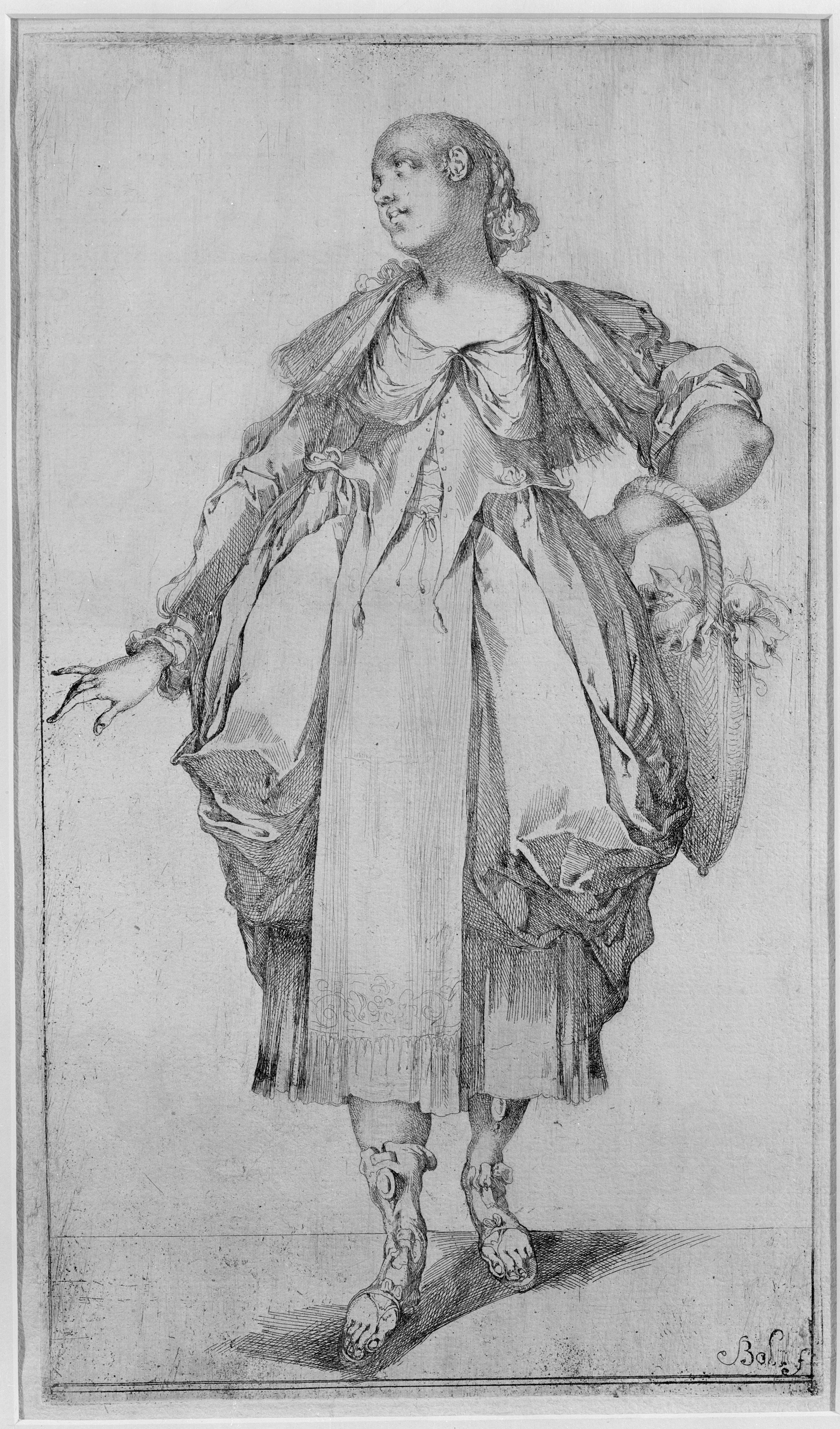 Print; Prints